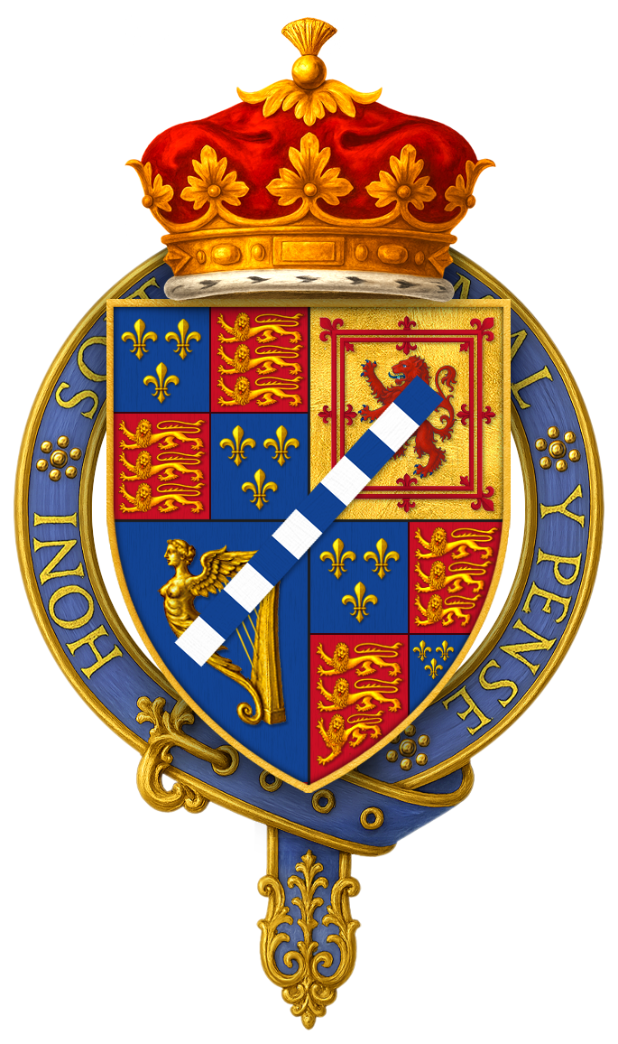 Shield of arms of George Henry FitzRoy, 4th Duke of Grafton, KG